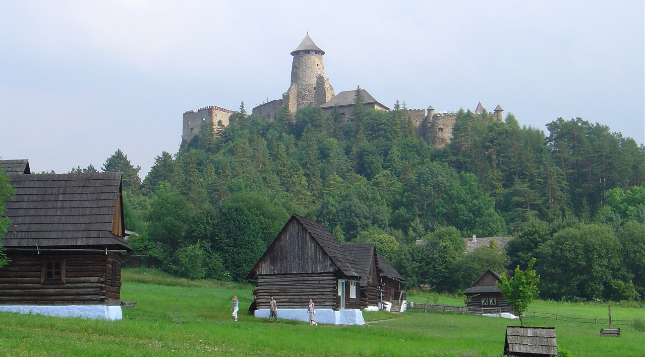 Castle of Lubovna and Museum of north slovak village